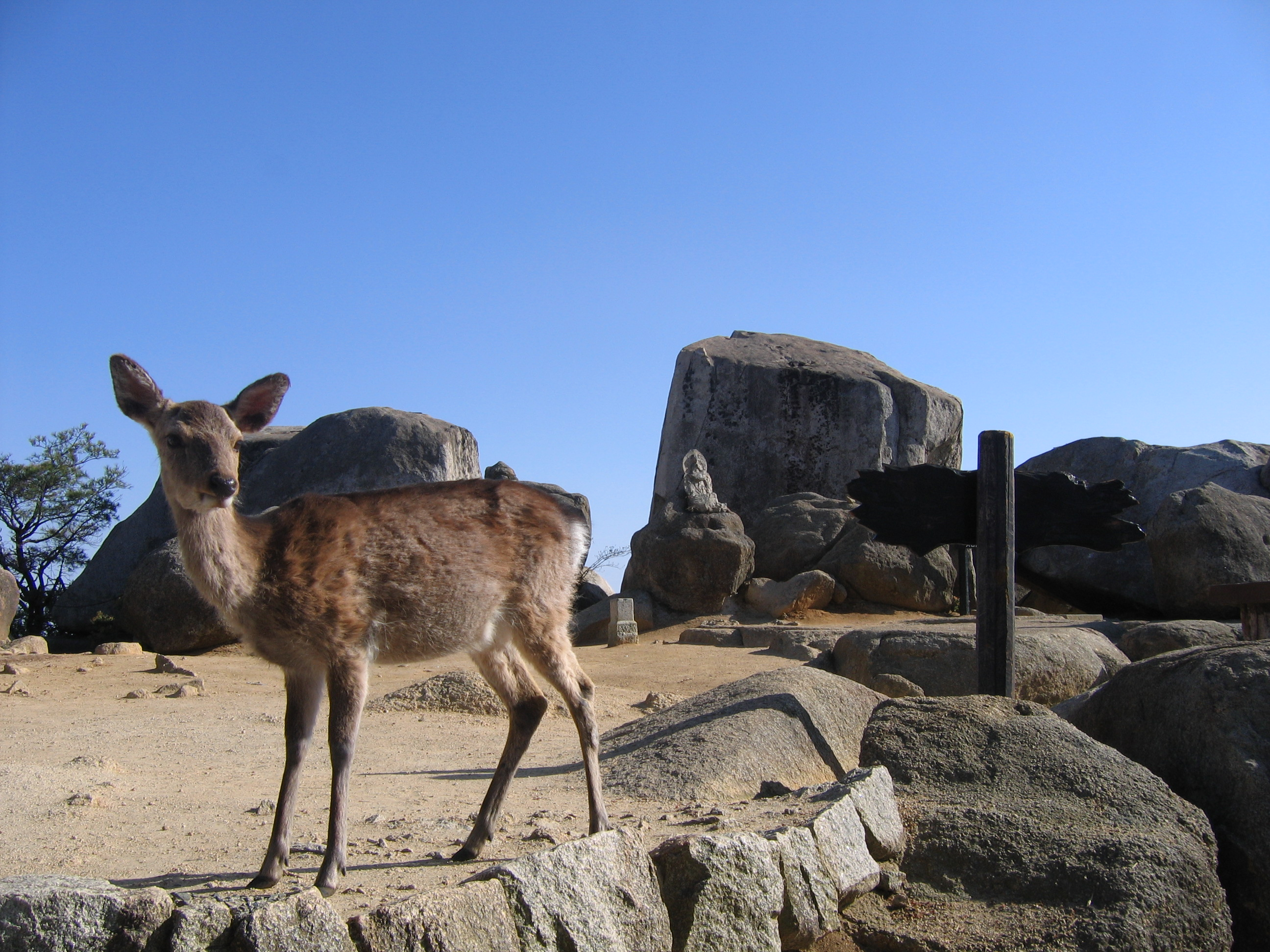 Deer on Mt. Misen, Miyajima. Deer on Mt. Misen, Miyajima, Miyajima.